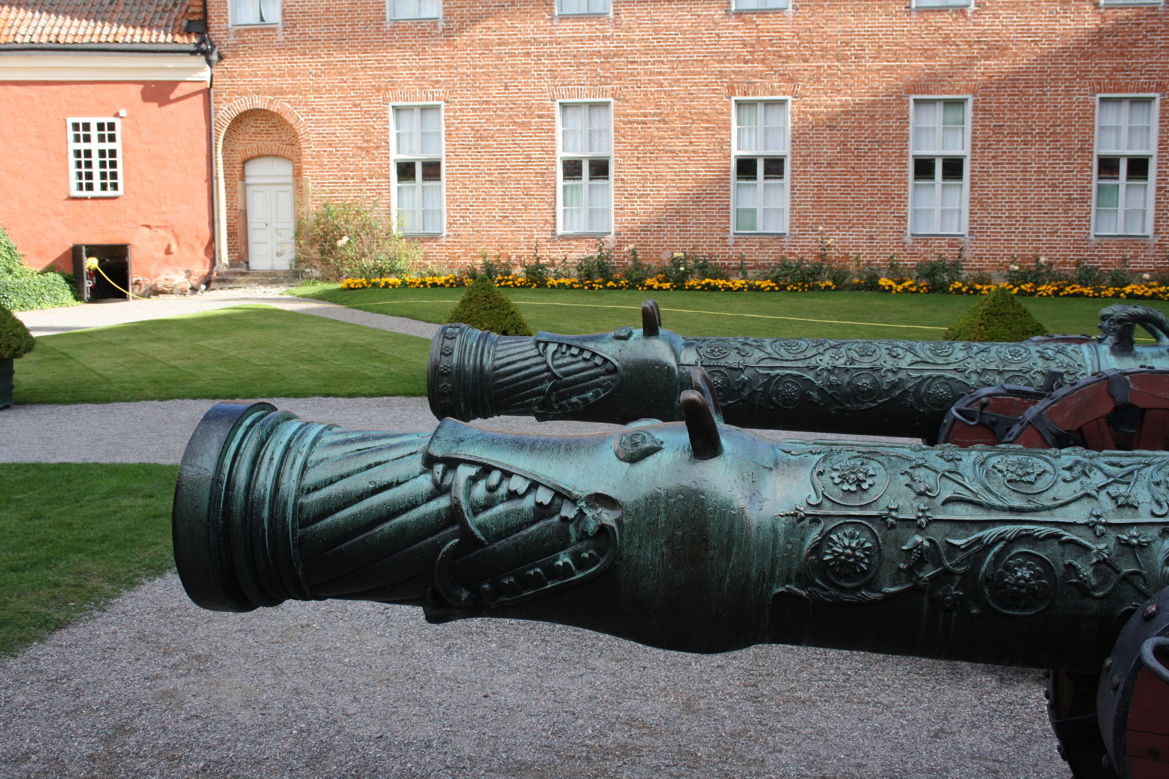 Canons at Gripsholm's Castle, Mariefred, Sweden